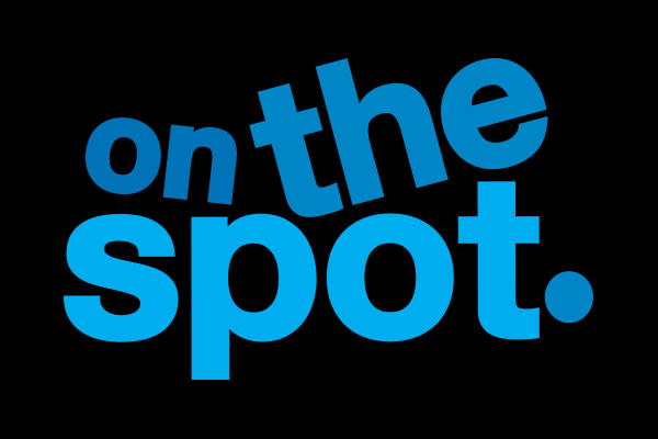 Logo for On the Spot, an improvisational comedy game show hosted by Jon Risinger and produced by Rooster Teeth.